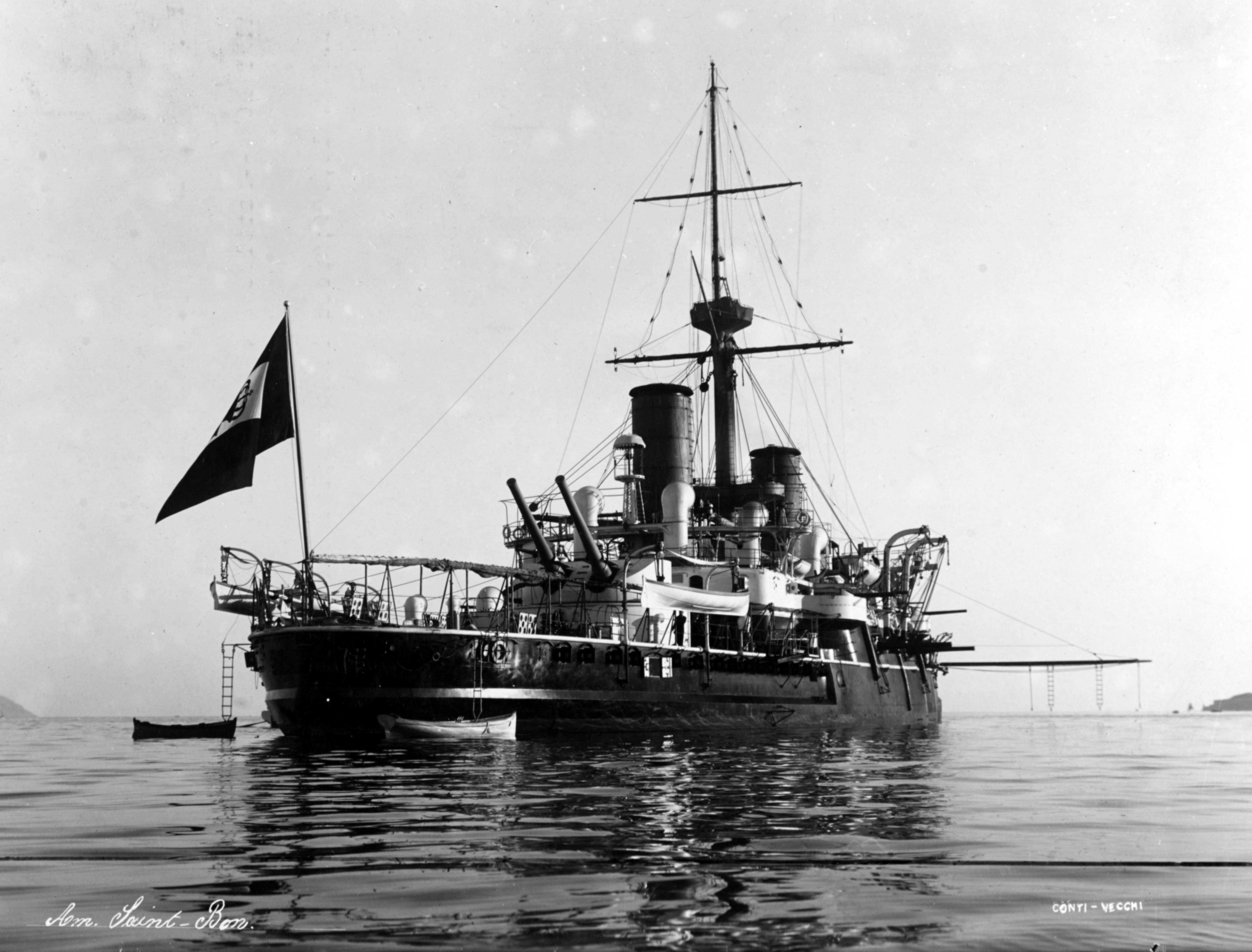 Title: AMMIRAGLIO DI SAINT BON (Italian Battleship, 1897-1920) Caption: Photographed soon after completion.